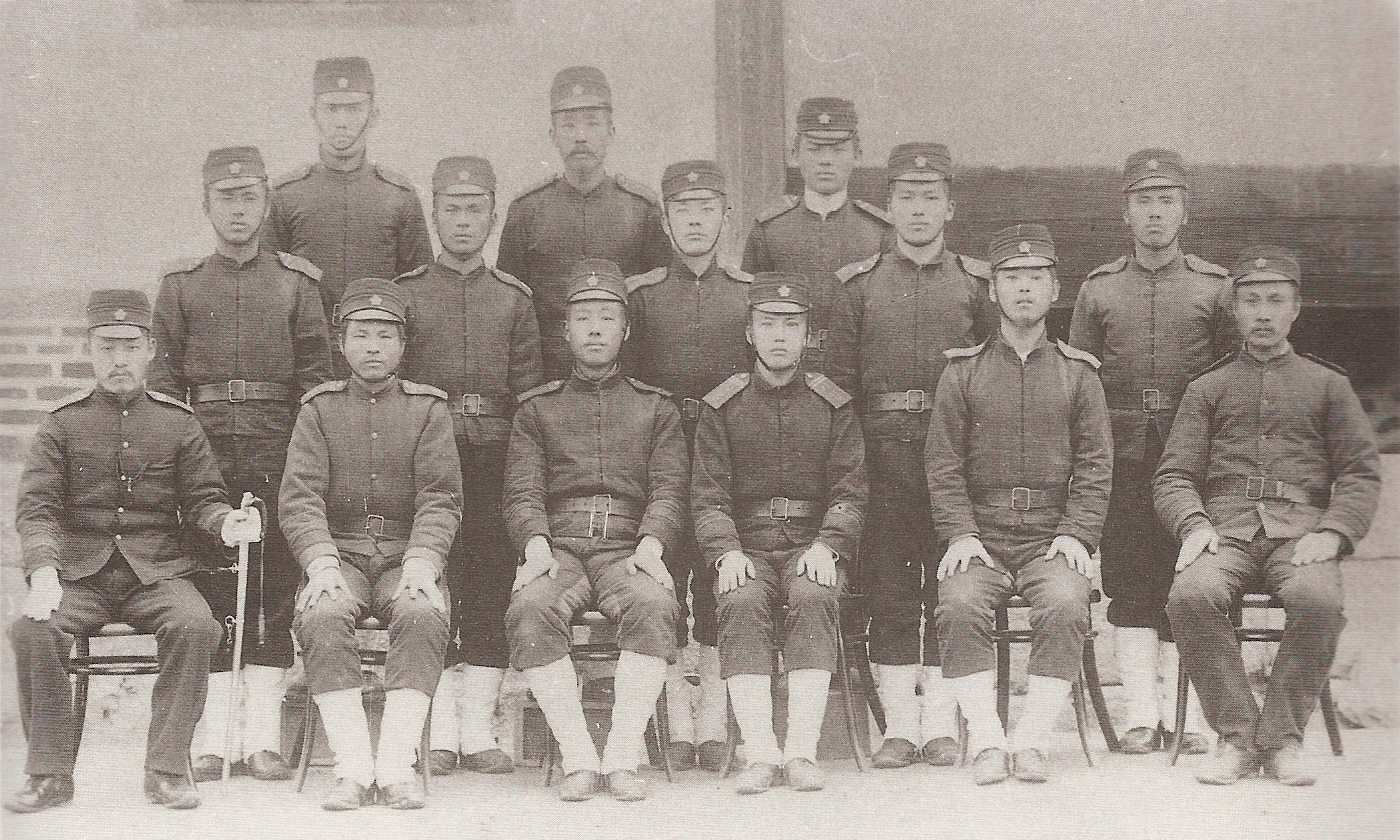 Soldiers of Great Korean Empire, 1898